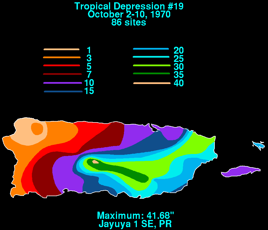 Storm total rainfall map of Tropical Depression Nineteen during October 1970.